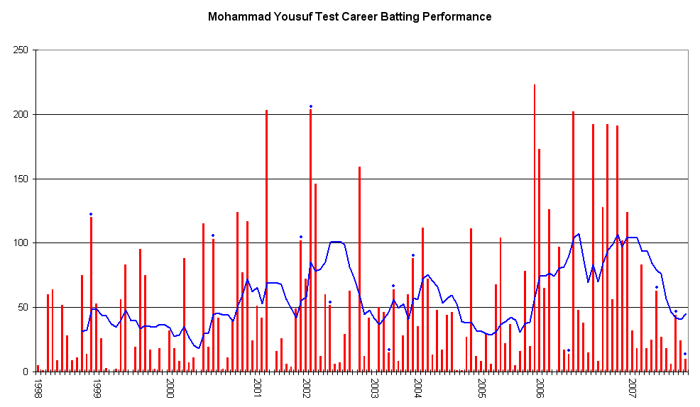 This graph details the Test Match performance of Mohammad Yousuf (formerly Yousuf Youhana). It was created by Raven4x4x. The red bars indicate the player's test match innings, while the blue line shows the average of the ten most recent innings at that point. Note that this average cannot be calculated for the first nine innings. The blue dots indicate innings in which Yousuf finished not-out. This graph was generated with Microsoft Excel 2002, using data from Cricinfo [1] and Howstat [2]. The information in this chart is current as of 16 December 2007.